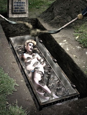 Woman trapped into a tomb full with rats, while she is being buried alive by two assistants.